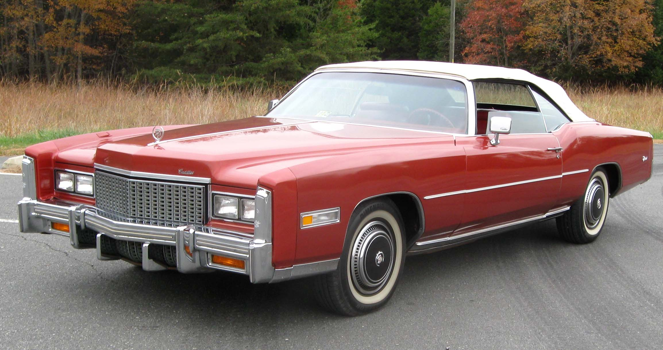 1976 Cadillac Eldorado convertible photographed in Manassas, Virginia, USA.